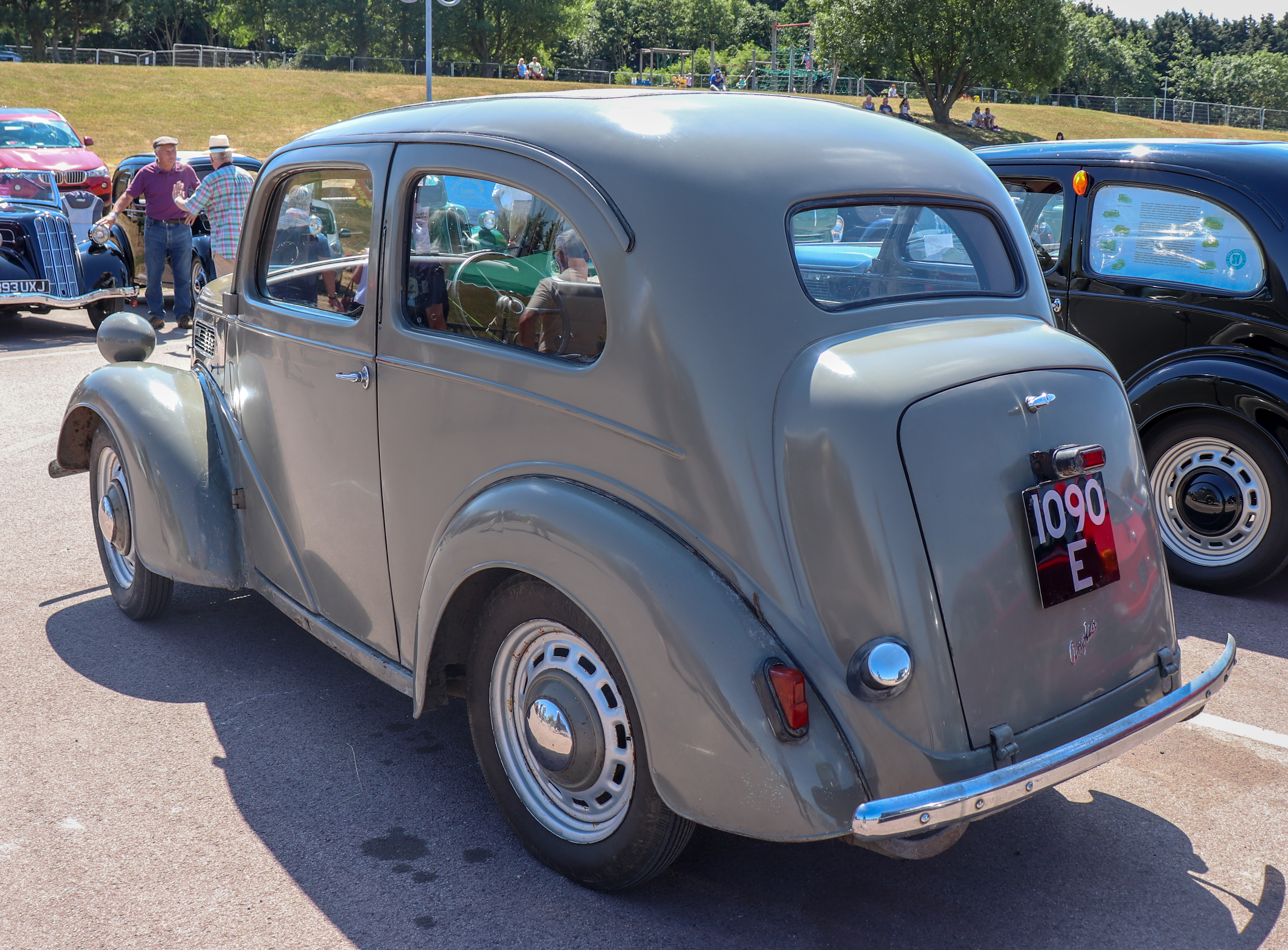 1953 Ford Anglia E494A 930cc Rear Taken at the British Motor Museum Old Ford Rally 2018, Gaydon